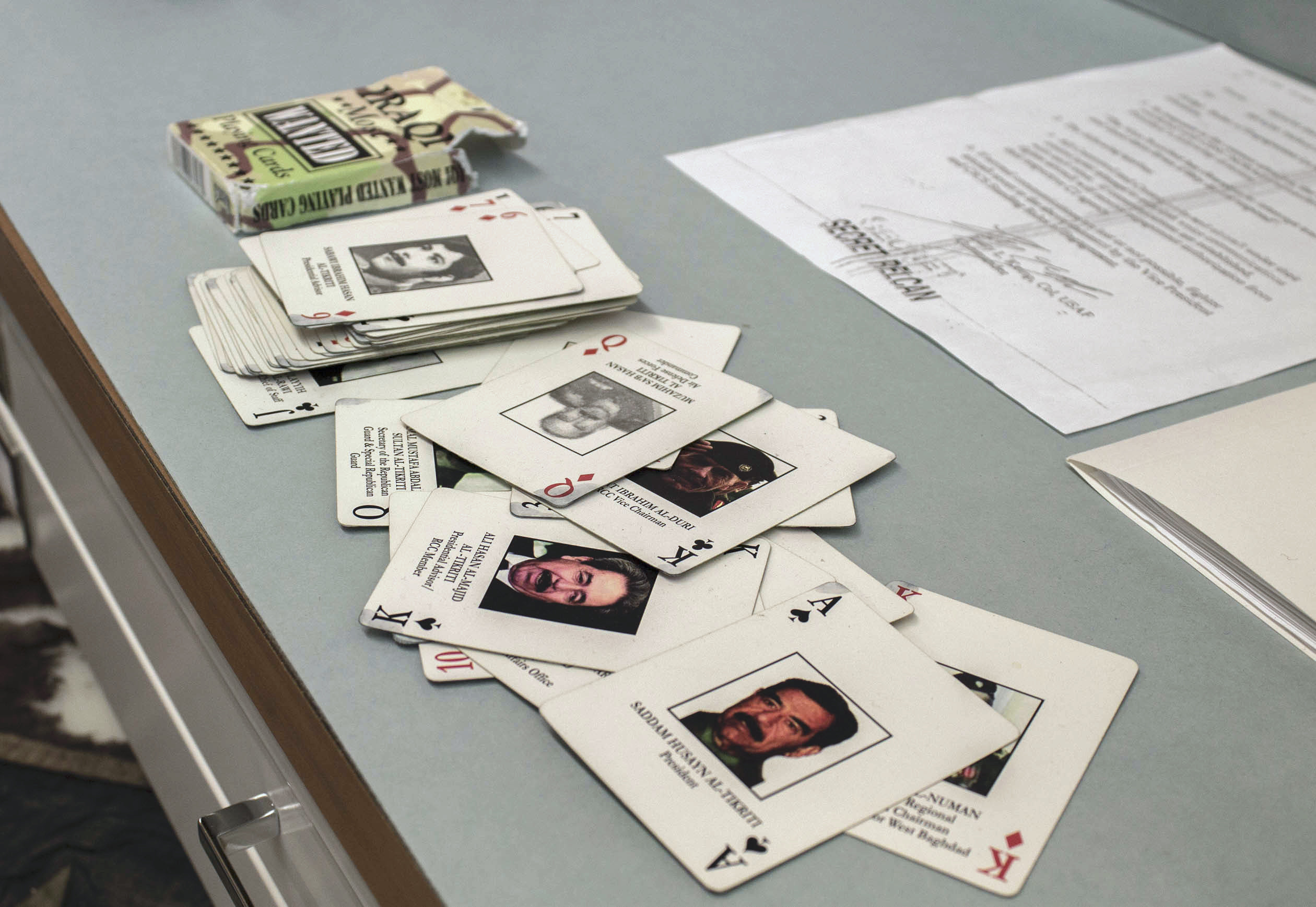 Graduate students from University of New Orleans public history department tour the Louisiana National Guard Museum April 11. A stack of playing cards displaying Iraq War's "most wanted" rests on a shelf in the museum's archive department. (U.S. Army photo by Sgt. Karen Sampson/Released)